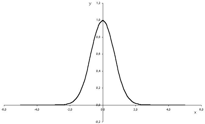 Radial base activation function